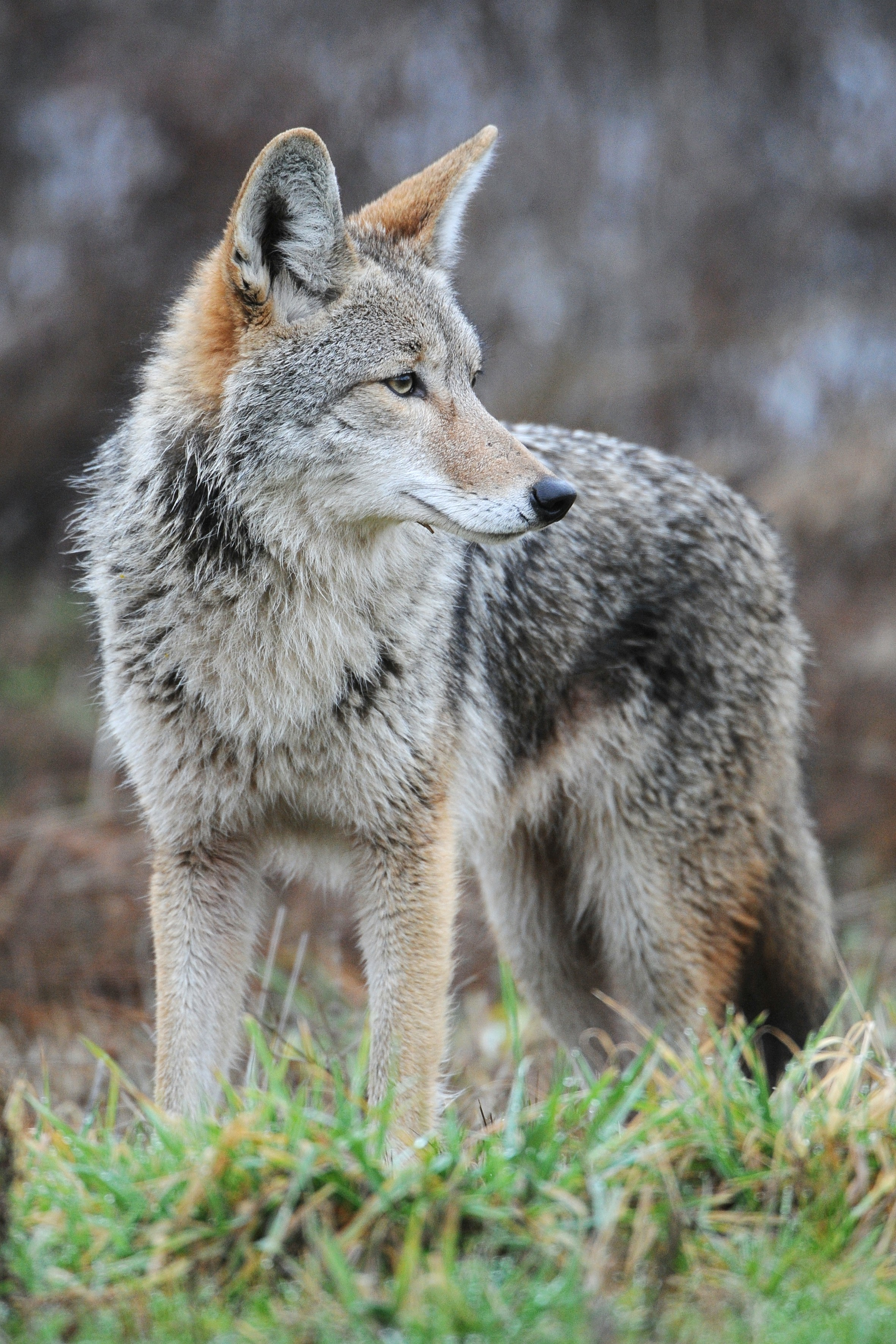 Coyote at Ridgefield National Wildlife Refuge